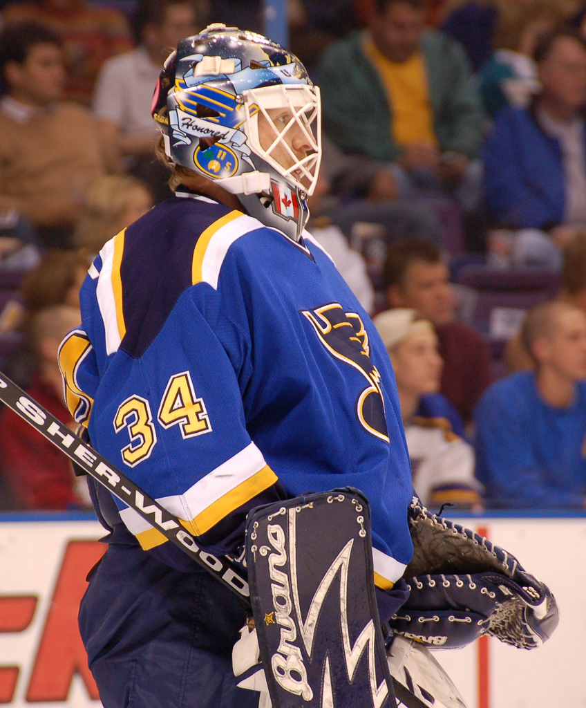 Manny Legacé, ice hockey goaltender for the St. Louis Blues